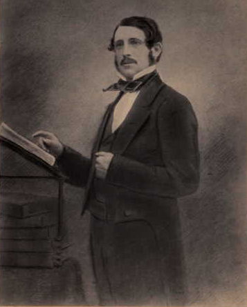 The baker and confectioner Tom Smith (1823-1869) the creator of the Christmas cracker